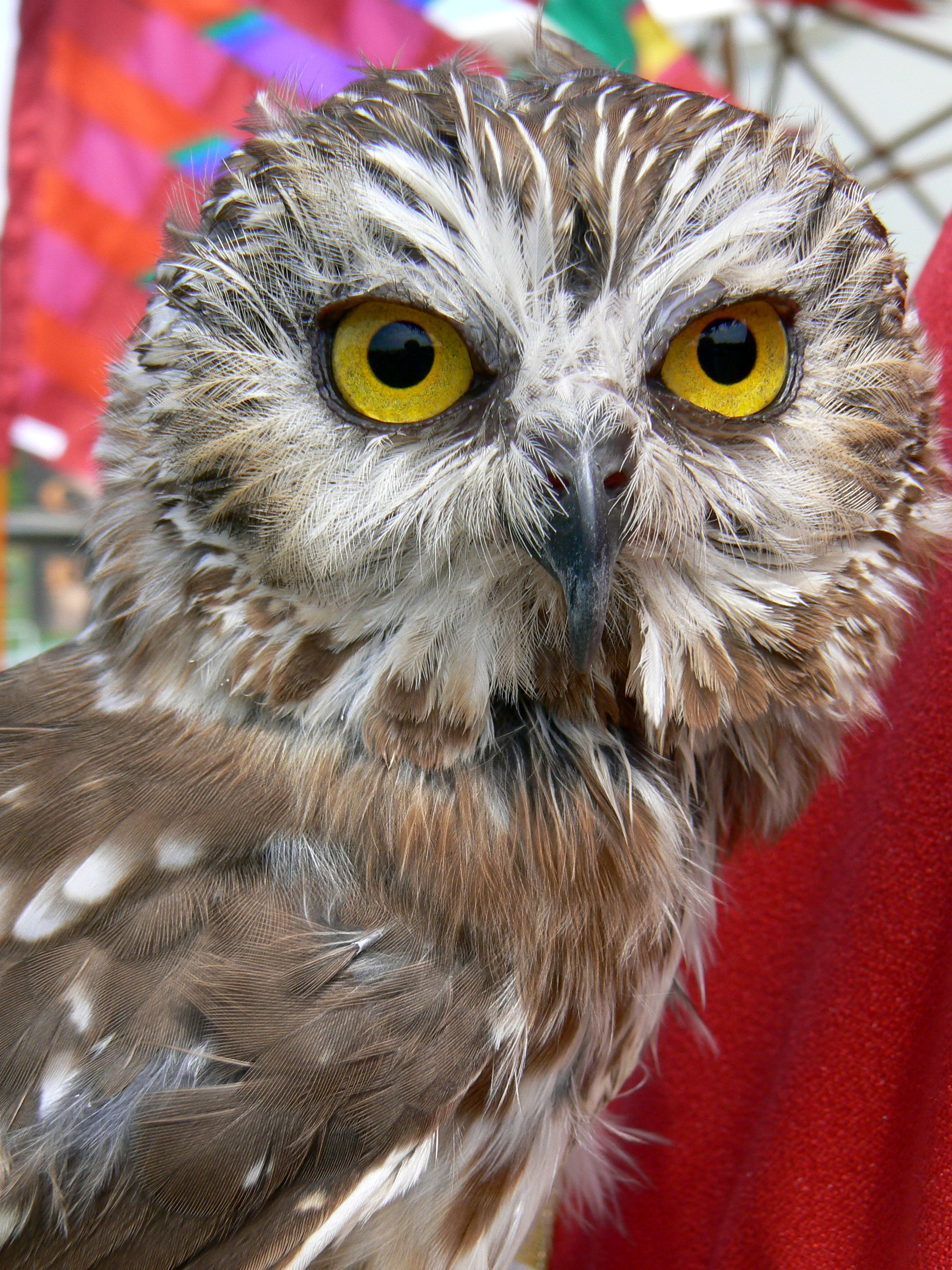 Northern Saw-whet Owl (Aegolius acadicus).